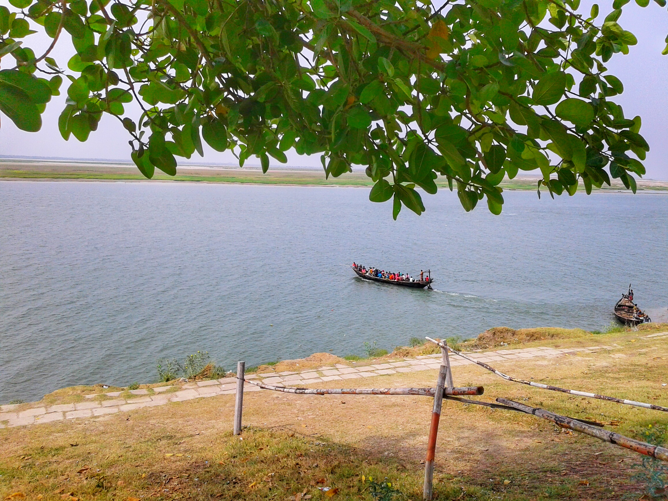 Local people in Rajshahi, Bangladesh are seen boarding small boats to get across the Padma river in the morning.